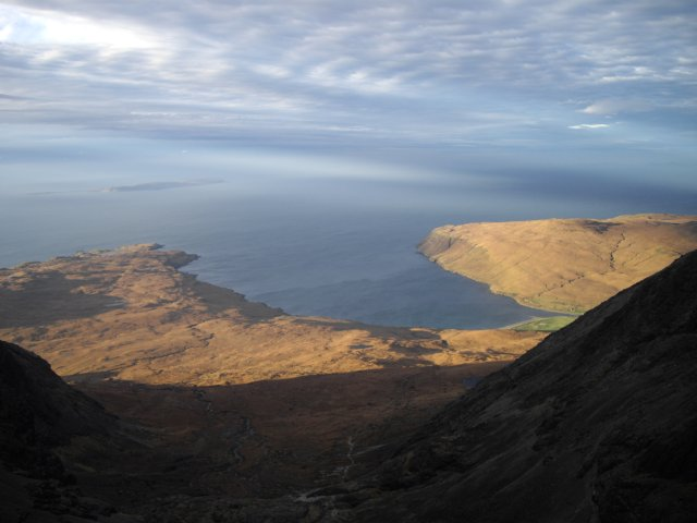 Loch Brittle Sea loch at the foot of Glen Brittle. Viewed from the Cuillin ridge.